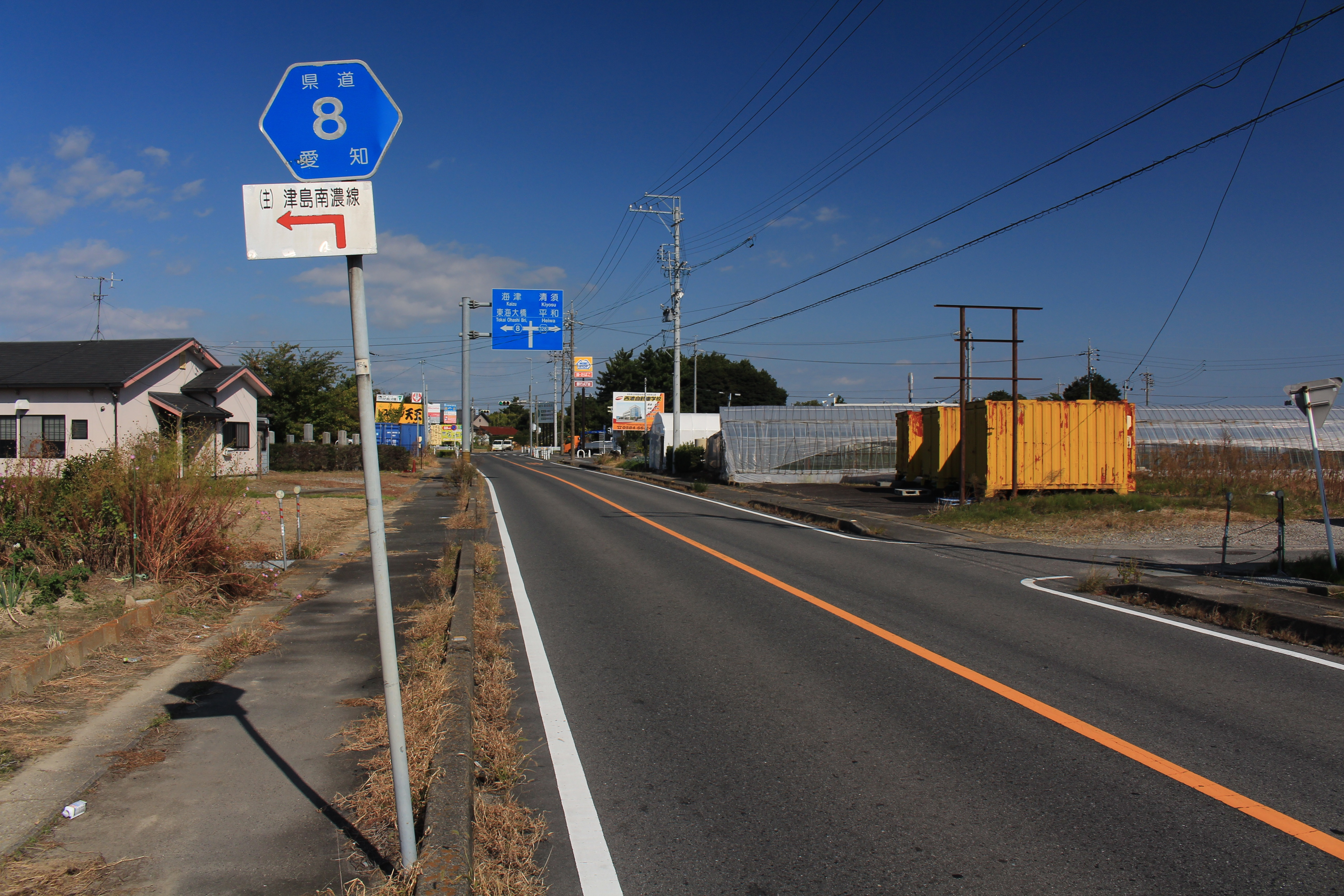 Aichi Prefectural Road Route 8 in Fujigase, Aisai, Aichi prefecture, Japan.